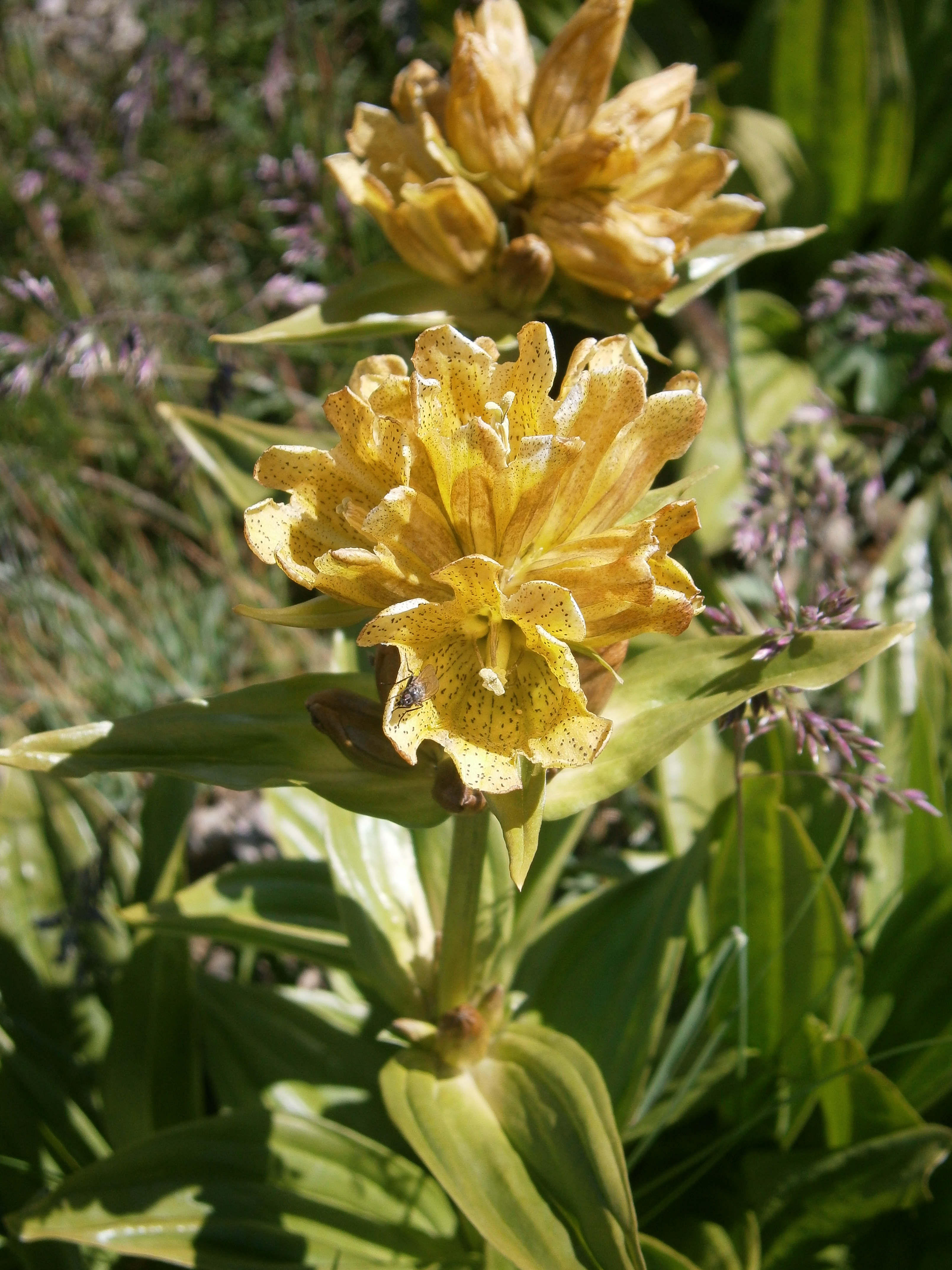 Gentiana punctata inflorescence